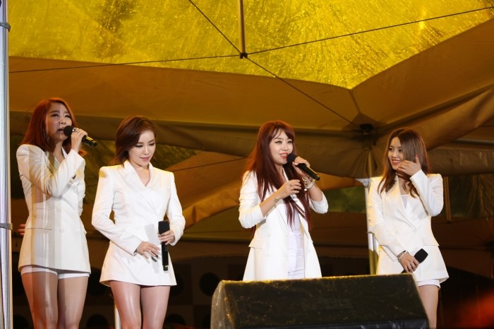 Brown Eyed Girls in July 10, 2012, during the Expo 2012 Yeosu.